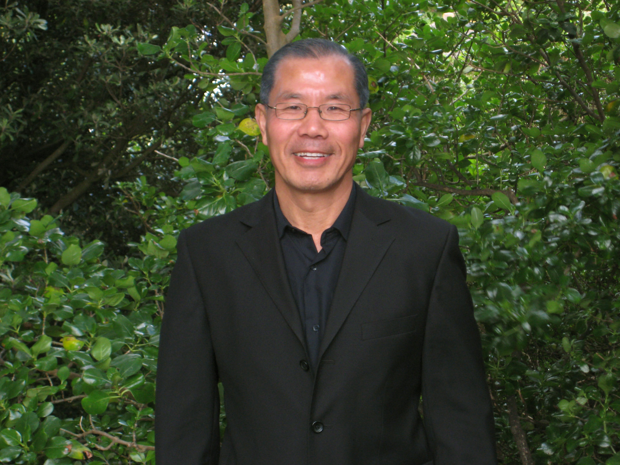 Jia Jia (賈甲), Chinese scientist and dissident